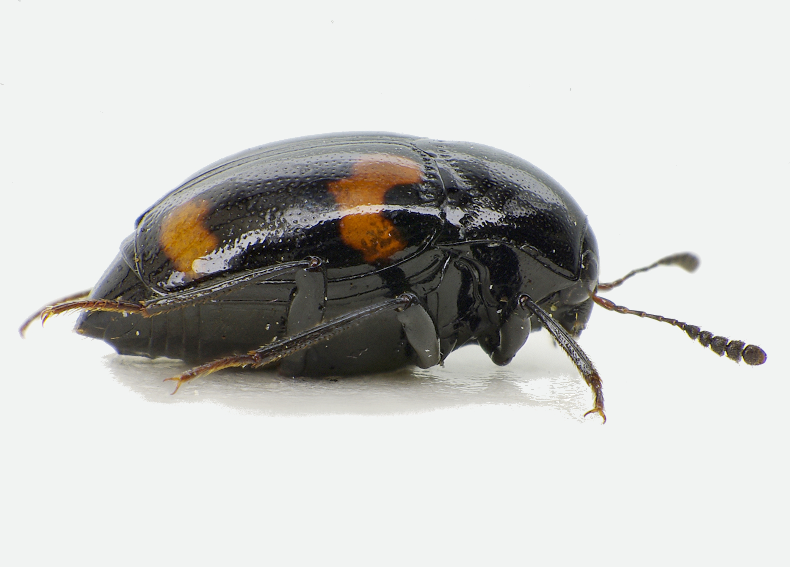 Scaphidium quadrimaculatum from West France, Hostens about 30 km south of Bordeaux, under bark of dead poplar tree at 2013-05-02